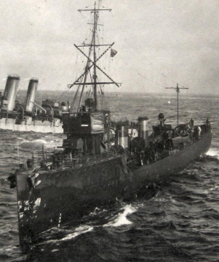 closeup detail of HMS Fury acorn class destroyer 1911-1921 attending the sinking of HMS Audacious October 1914. Taken from Image:HMS Liverpool attemps to take HMS Audacious in tow.jpg:View from the passenger decks of RMS Olympic as HMS Liverpool (left) strains to tow the sinking HMS Audacious (bow seen on right), dated October 26 (sic) 1914. HMS Fury, dark vessel, in foreground.